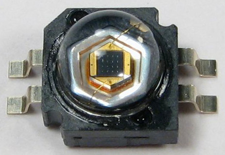 LUXEON K2 high power "royal blue" (455 nm) SMD LED, type LXK2-PR14-R00.